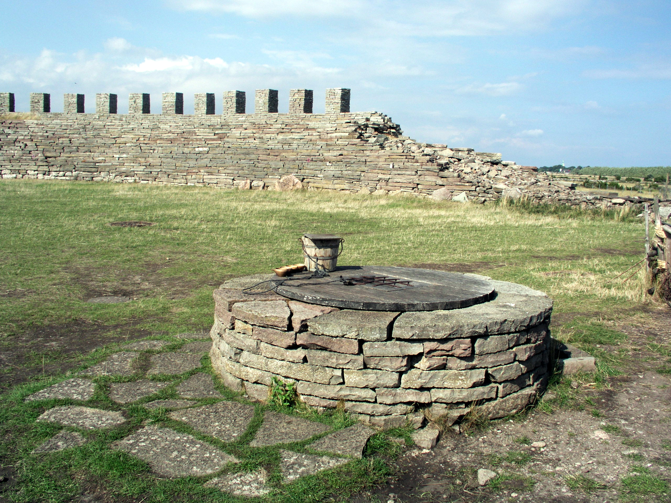 Eketorp fornby / Eketorp ancient village. Island of Öland, Sweden.